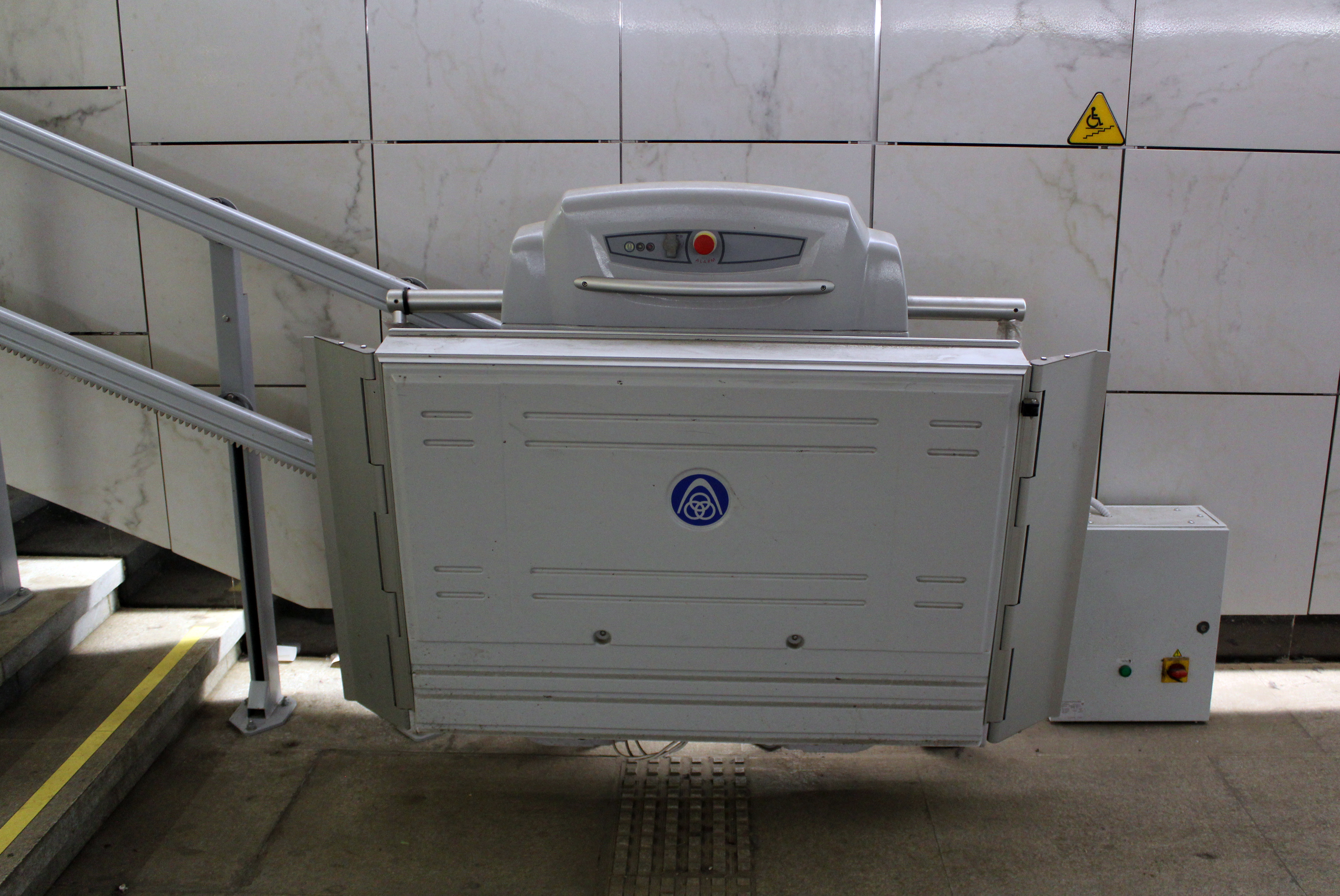 ThyssenKrupp stair lift in Moscow